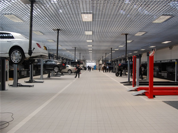 Interior shot of the service center of Jack Barclay Bentley, London